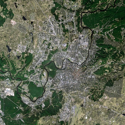 Vilnius by SPOT Satellite